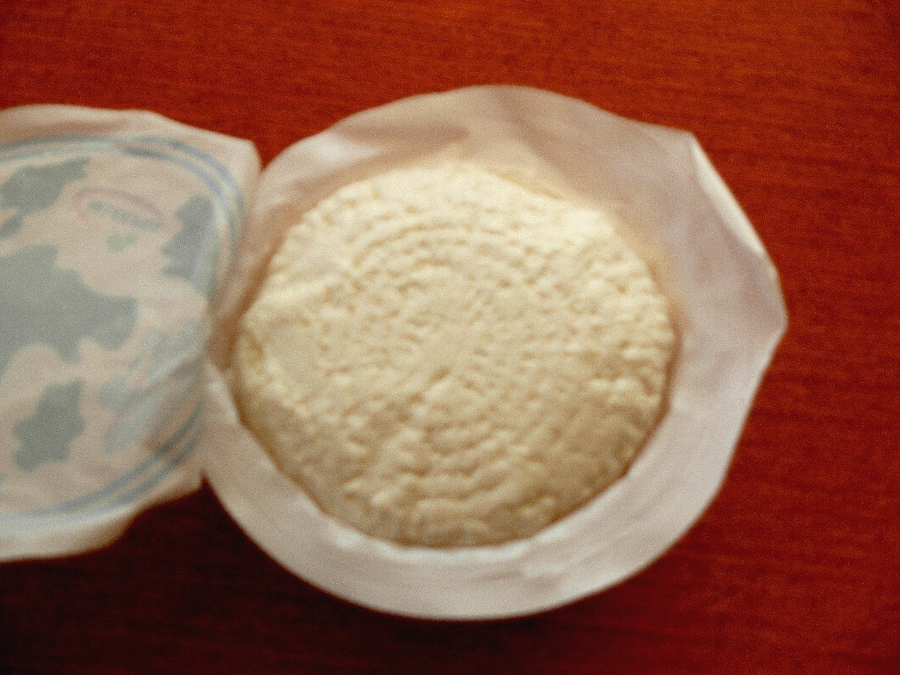 Photo by myself. Quark (cheese)